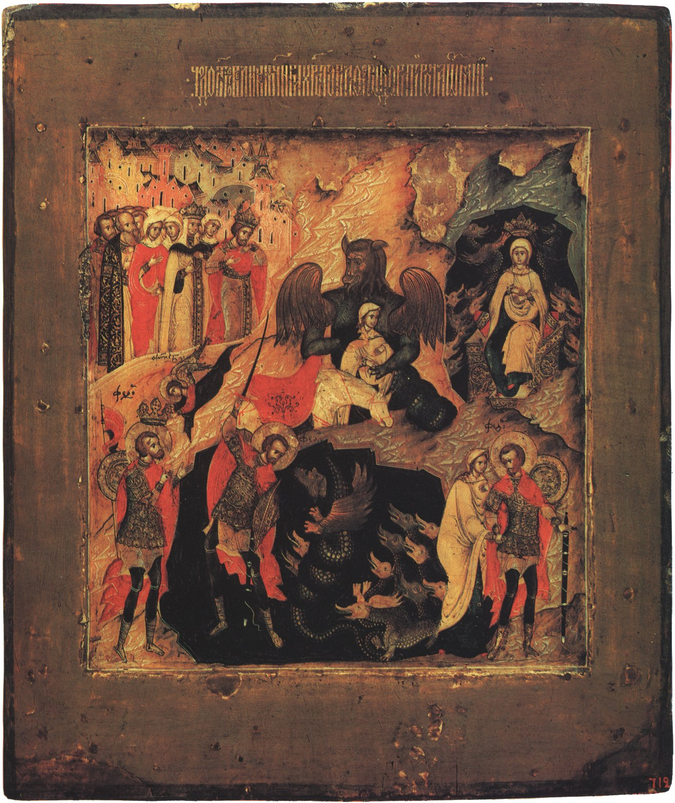 Saint Theodore's miracle